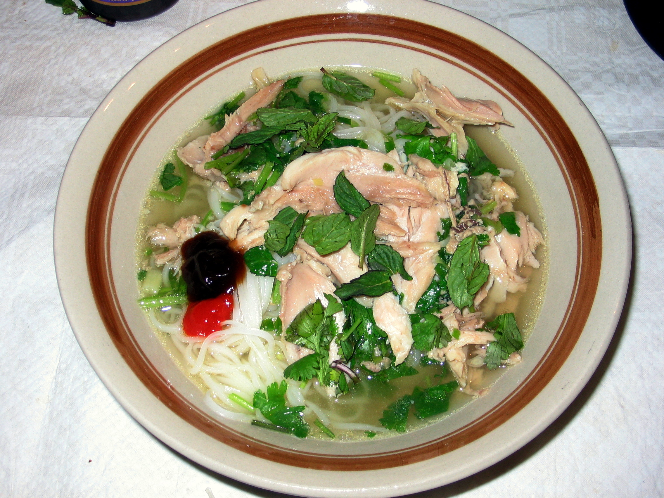 Probably the best Vietnamese soup, Phở. My personal favorite. Photograph taken by me and licensed with Creative Commons. (with Huy Fong Sriracha sauce and Hoisin-sauce)